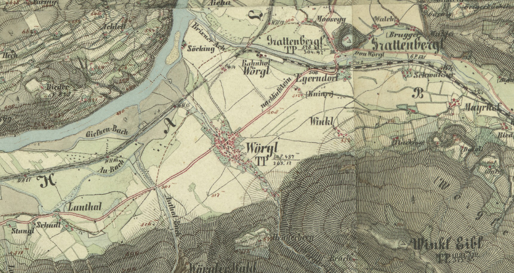 The area of Wörgl about 1870.